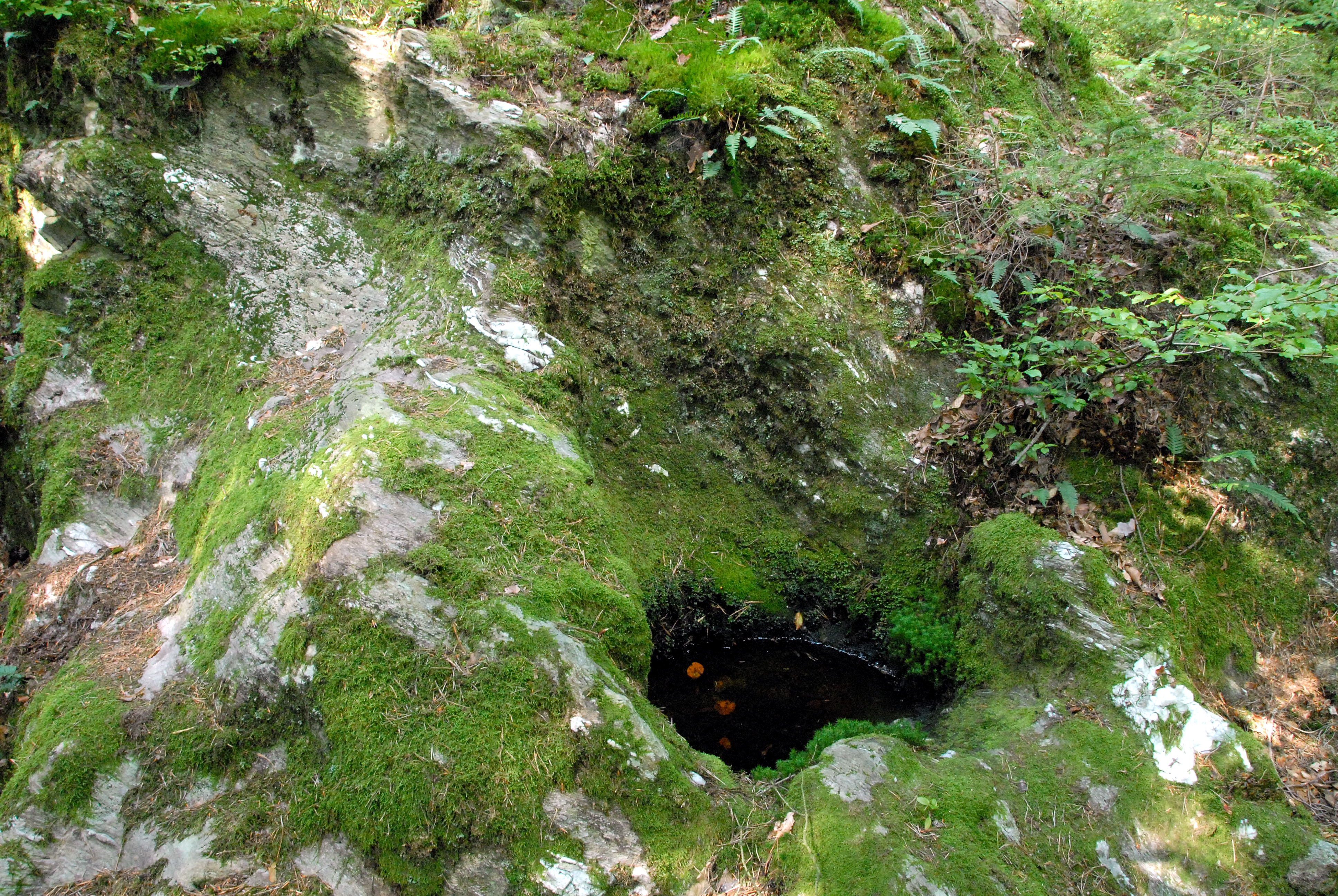 Giant kettle in Gurlitsch II, Goertschach, municipality Krumpendorf, district Klagenfurt Land, Carinthia, Austria, EU